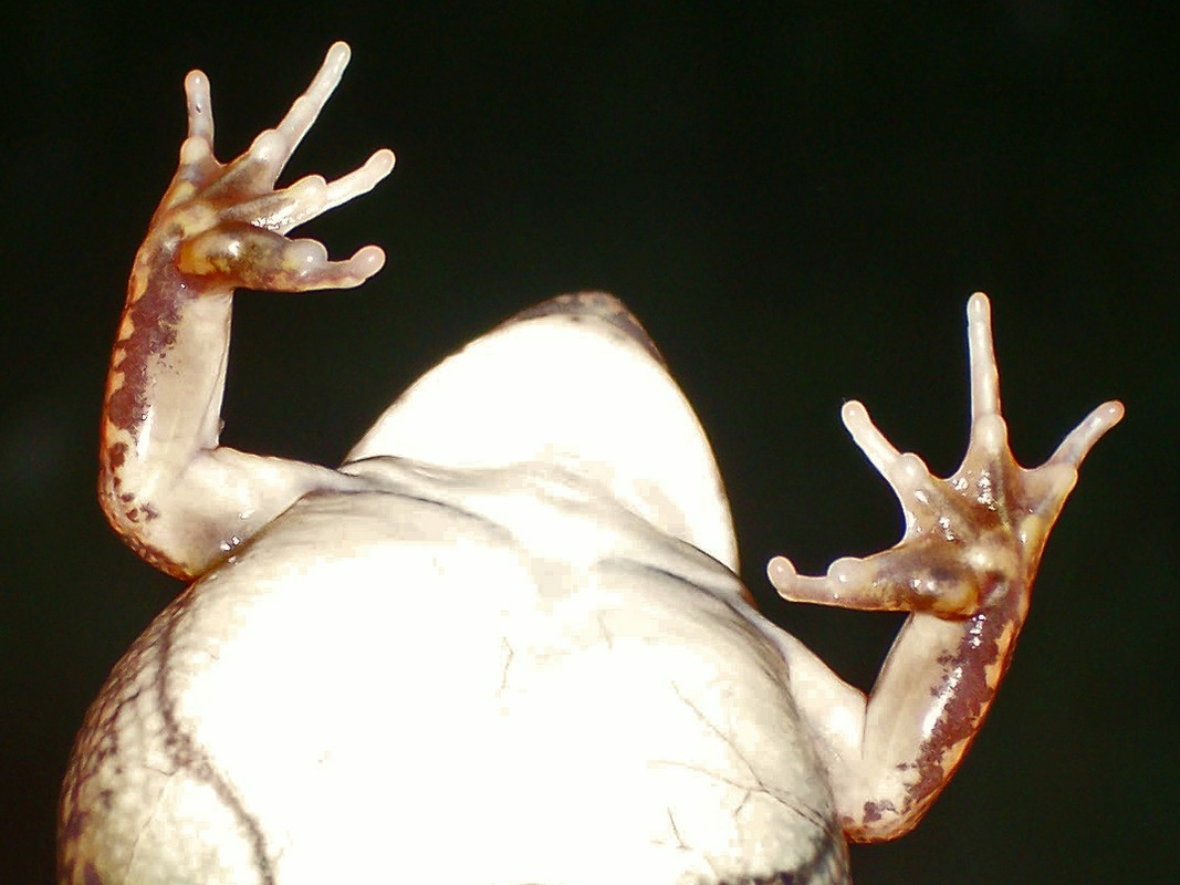 Fejervarya limnocharis without vertebral line or stripe; female; showing hands, fingers, and ventral region. From Bogor, West Java, Indonesia.